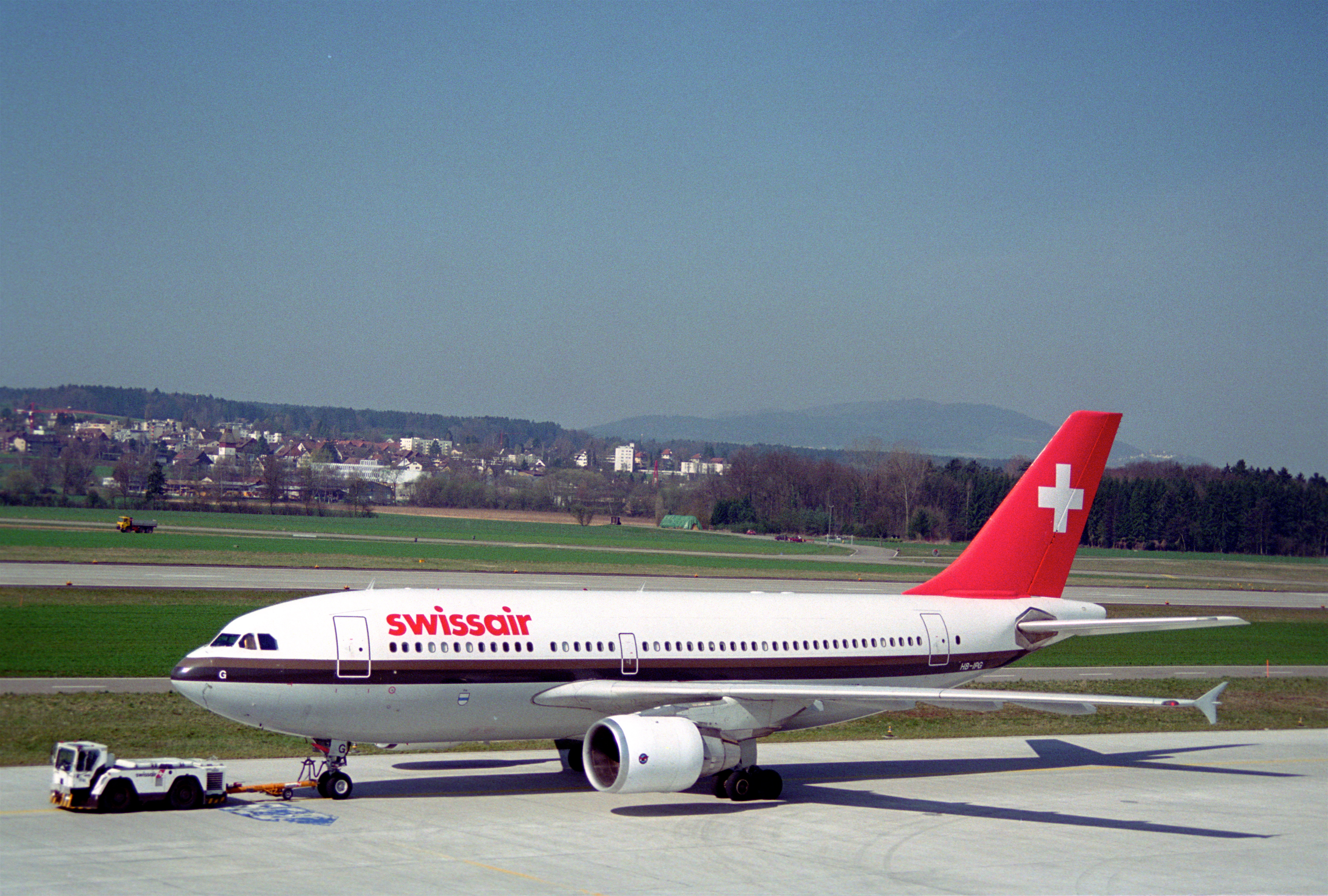 Swissair Airbus A310-322; HB-IPG@ZRH;04.04.1995